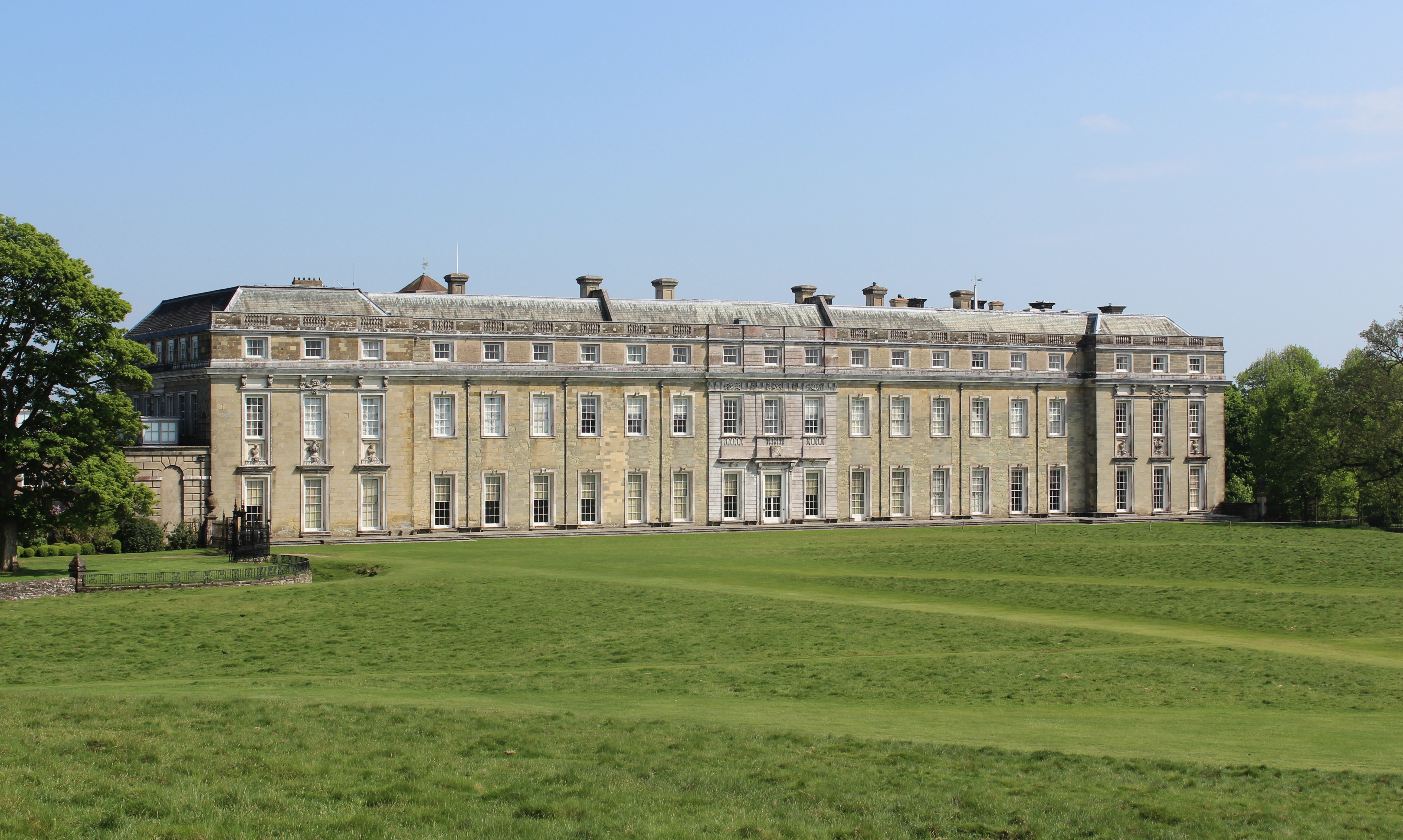 Petworth House, a late 17th-century Grade I listed country house, rebuilt in 1688 by Charles Seymour, 6th Duke of Somerset, now owned by the National Trust.